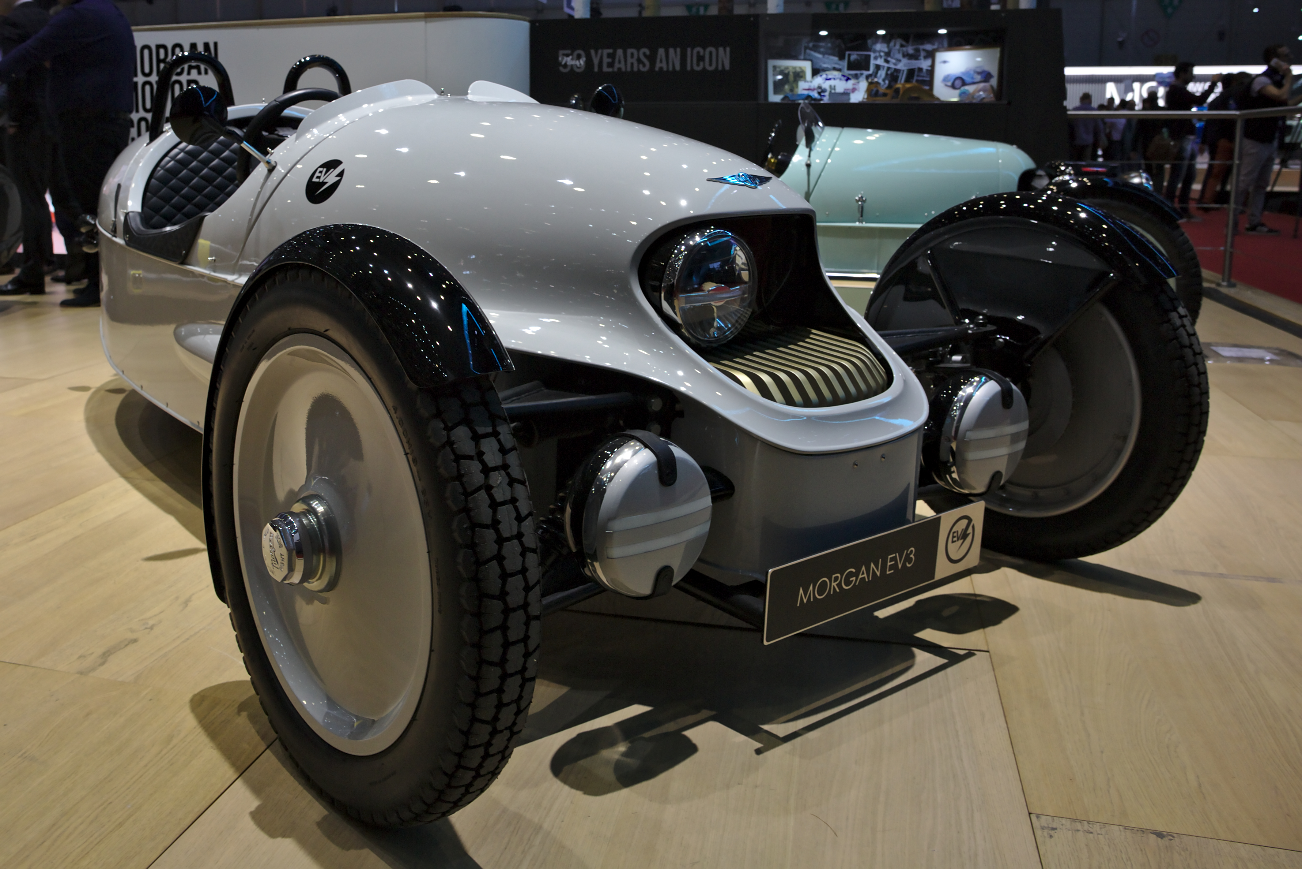 Morgan Threewheeler EV3 at Geneva Motorshow 2018